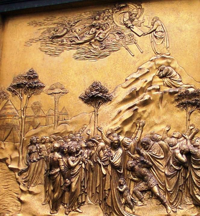 Lorenzo Ghiberti, Porta del Paradiso del Battistero di Firenze. Dettaglio. Receving the two scroll a Mount Sinai.